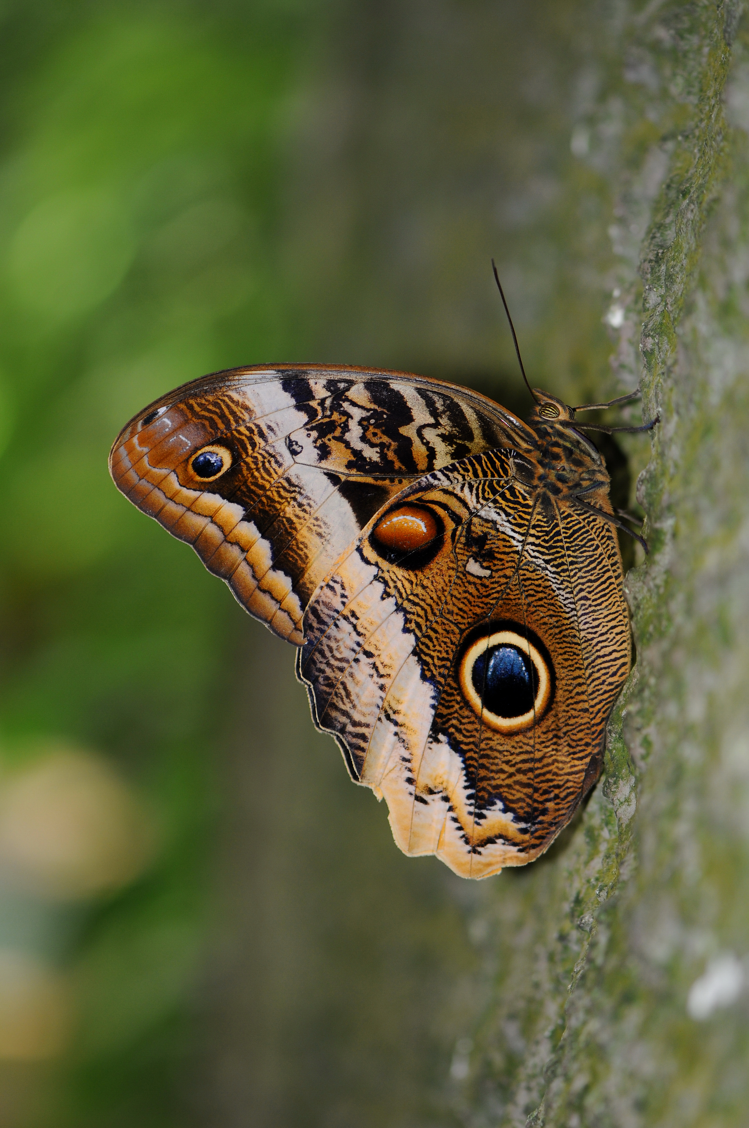 Owl butterflies, of which there are around 20 different species, are members of the genus Caligo, in the brush-footed butterfly family Nymphalidae.